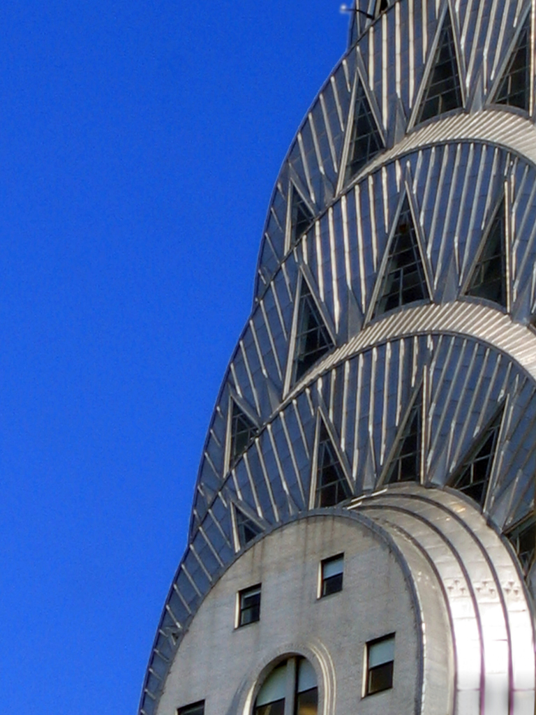 Detail of the ornamentation on the upper tower of the Chrysler Building, New York City.